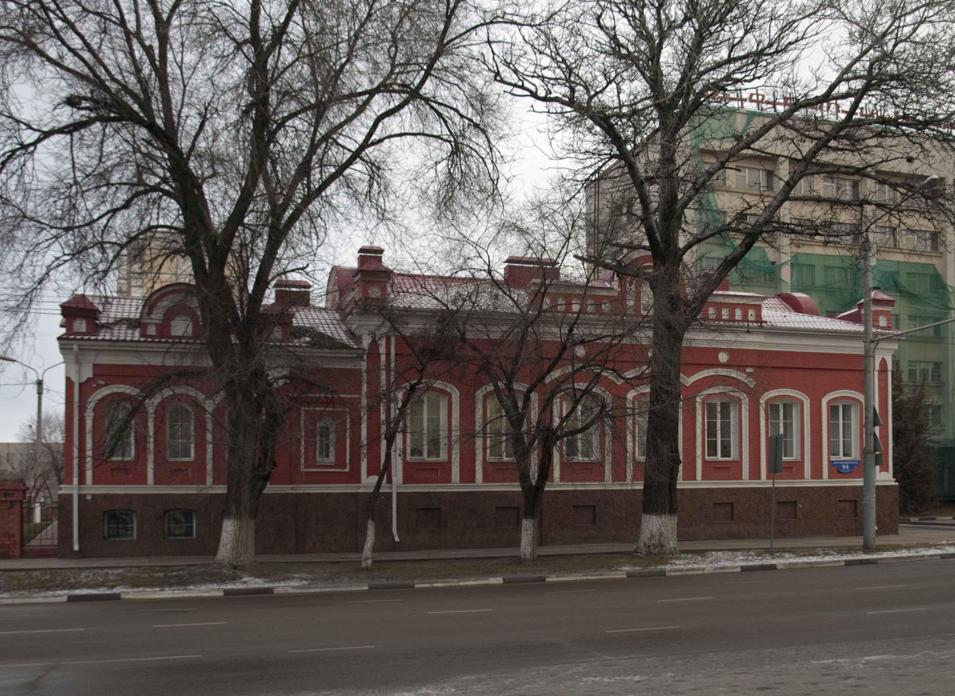 Merchant Goltsov Mansion, Preobrazhenskaya Street 94, Belgorod